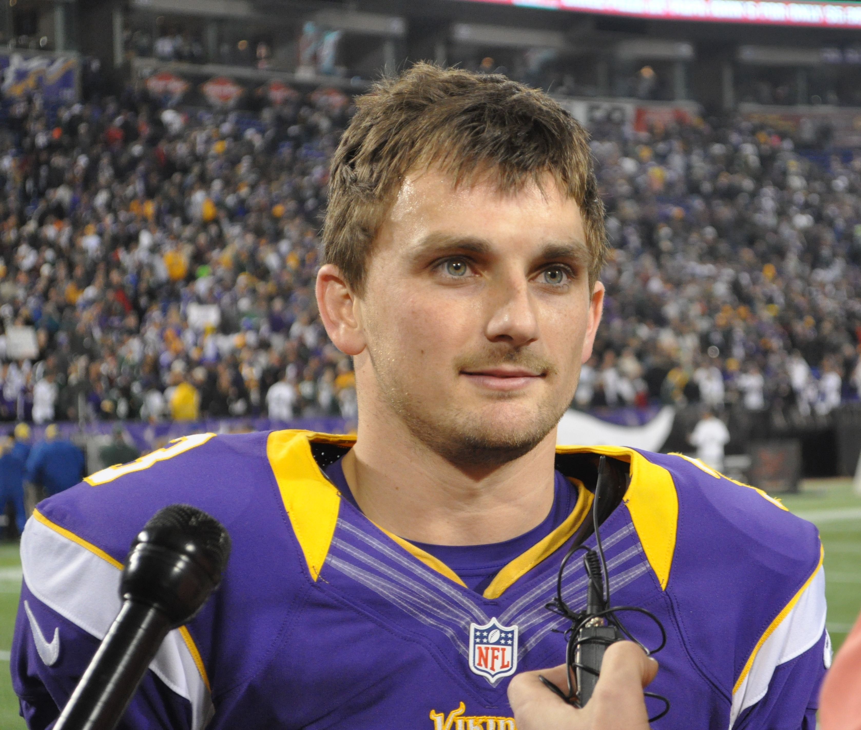 Minnesota Vikings kicker Blair Walsh speaks with media after a game vs the Green Bay Packers.